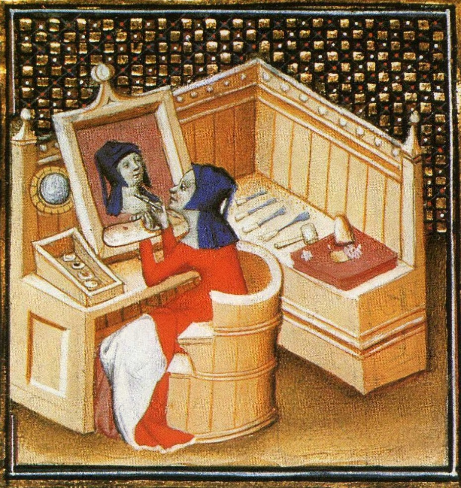 Iaia (fol. 100v) De mulieribus claris (BNF Fr. 598), beginning of the 15th century